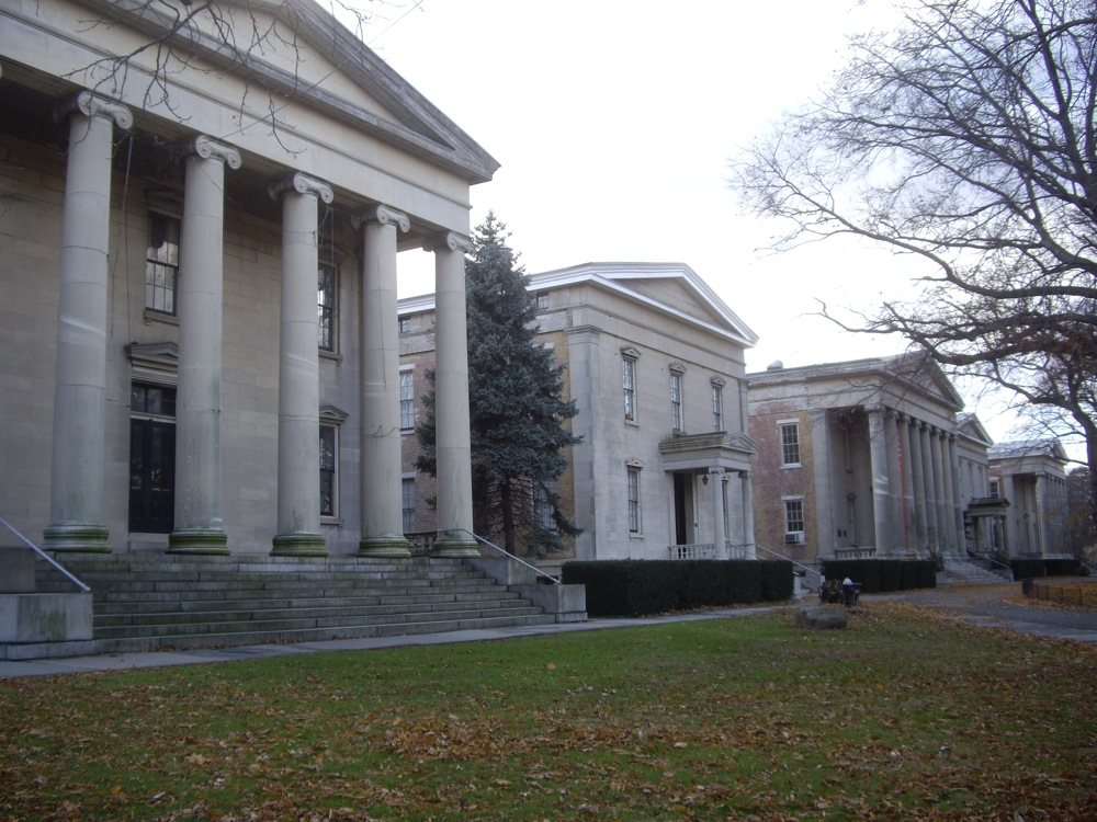 Looking west along the fronts of the five northern buildings of Sailors Snug Harbor, Staten Island, NY.